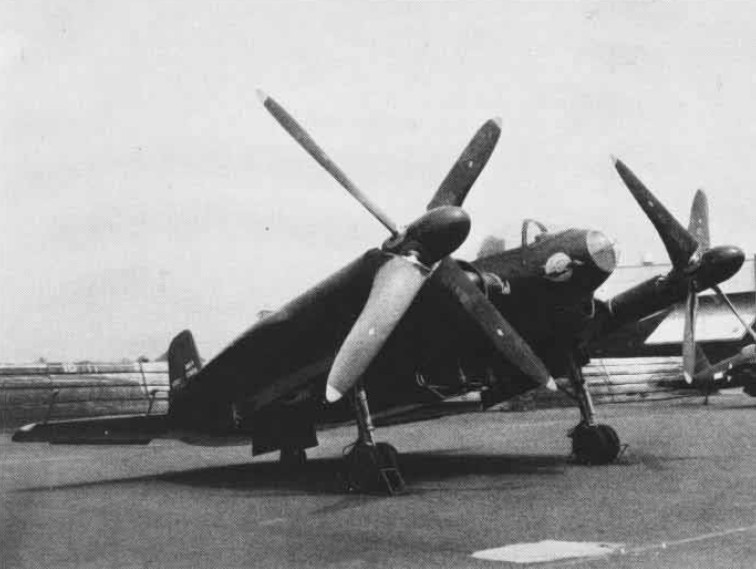 A U.S. Navy Vought XF5U-1 Flying Flapjack experimental fighter aircraft.